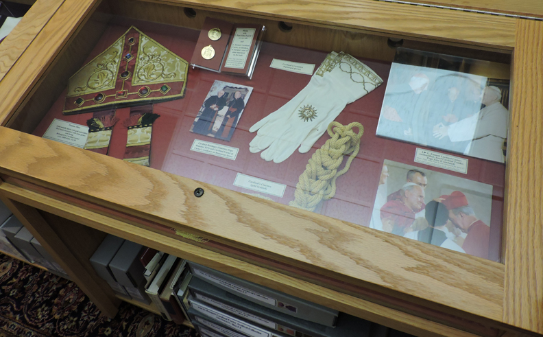 Artifacts on display in the Eaton Special Collections Room at King's University College at Western University.